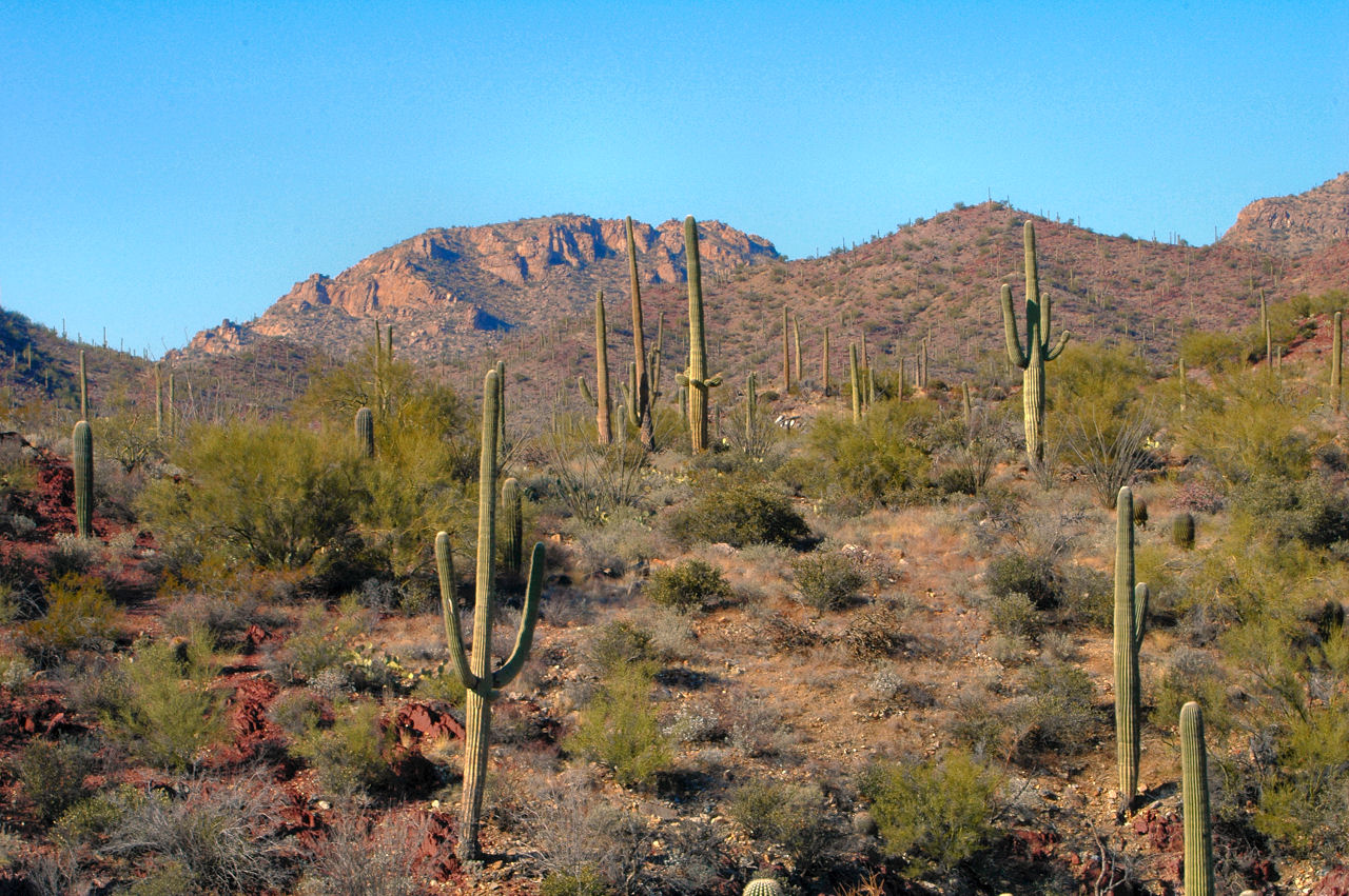 Sonora Desert in Arizona